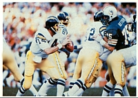 A football card from the 1986 Jeno's Pizza NFL football card stickers set of San Diego Chargers quarterback Dan Fouts and center Don Macek in an offensive play in the 1981 AFC Divisional Playoff Game on January 2, 1982. The card is numbered #53 in the set. The back of the card reads: IT WAS A GAME TO REMEMBER San Diego quarterback Dan Fouts looks for a receiver, as center Don Macek (62) protects him in the Chargers' dramatic 41-38 win over Miami in their 1981 AFC Divisional Playoff Game. Fouts passed for 433 yards, hitting 33 of 53, but San Diego had to go 13:52 into overtime to win on Rolf Benirschke's 29-yard field goal.